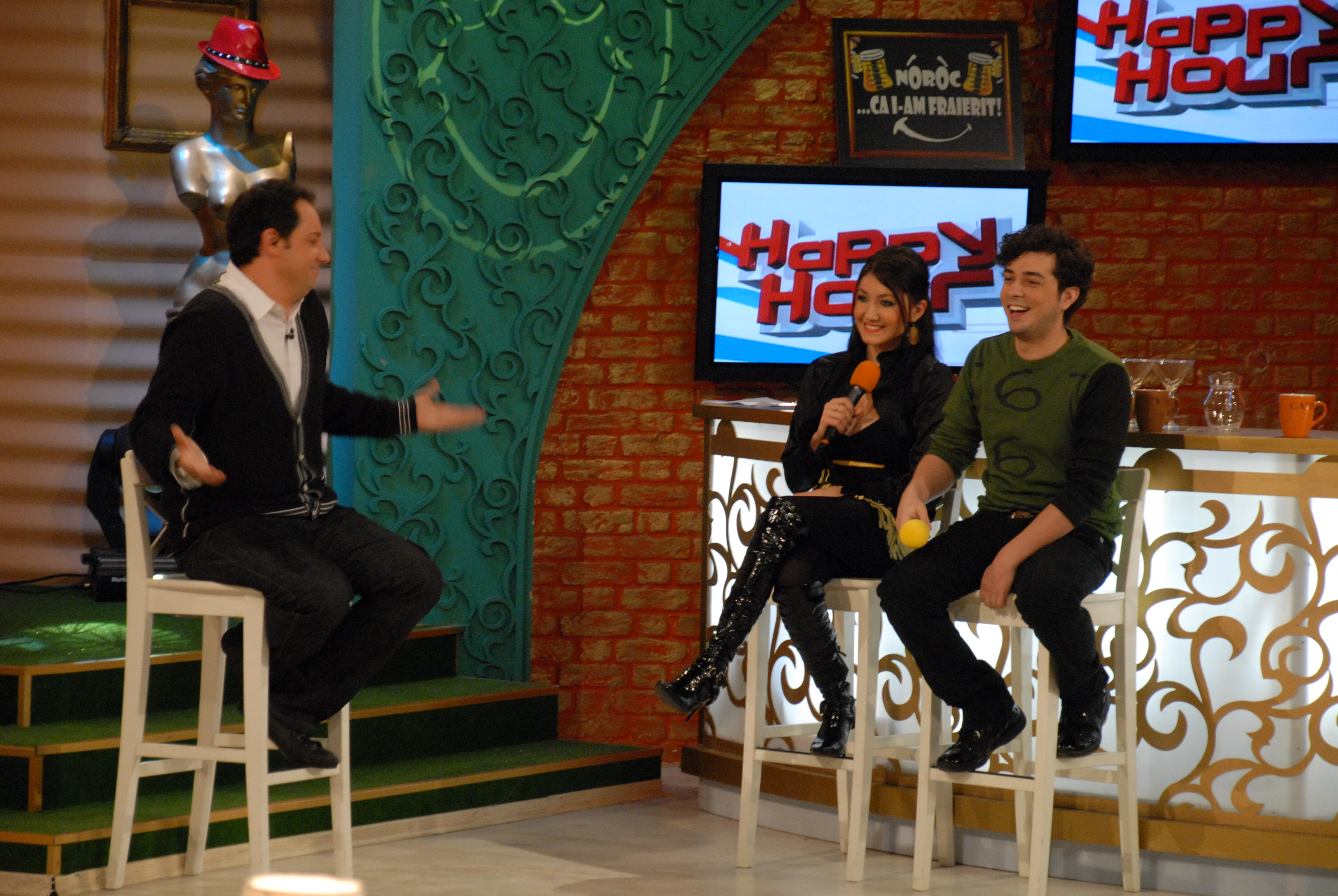 Dalma& Marius Moga at Happy Hour with Cătălin Măruță